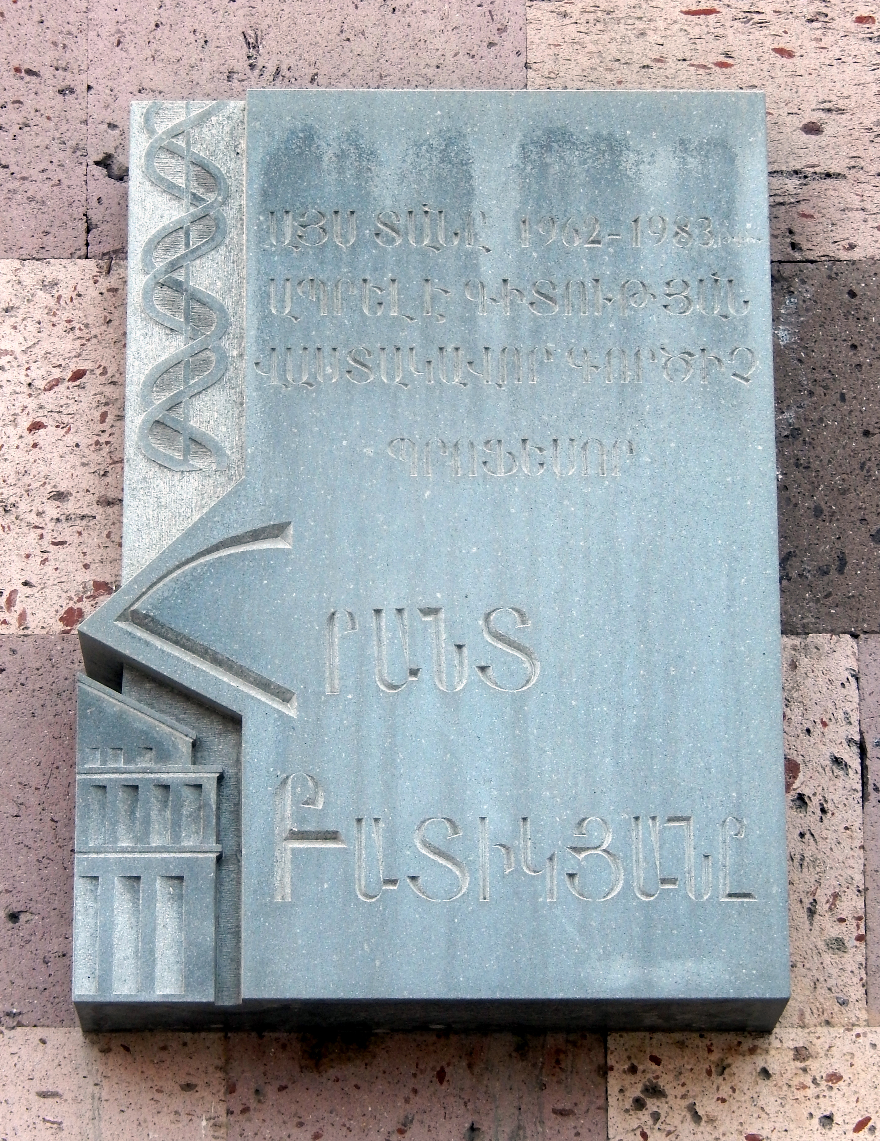 Հրանտ Բատիկյանի հուշատախտակը Երևան Չարենցի 4 հասցեում